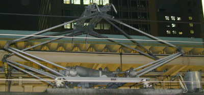 The pantograph of Japanese National Railway type 185